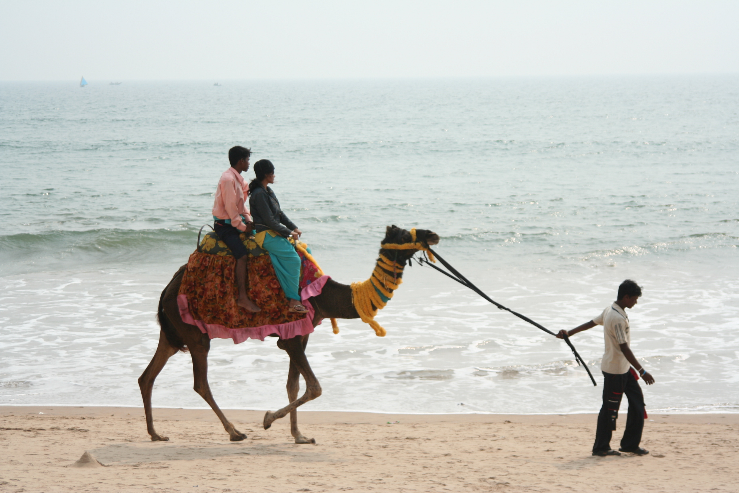 Camel ride on the beach in Puri, Orissa, India. Photography by the NGO medaptCamel ride in Orissa